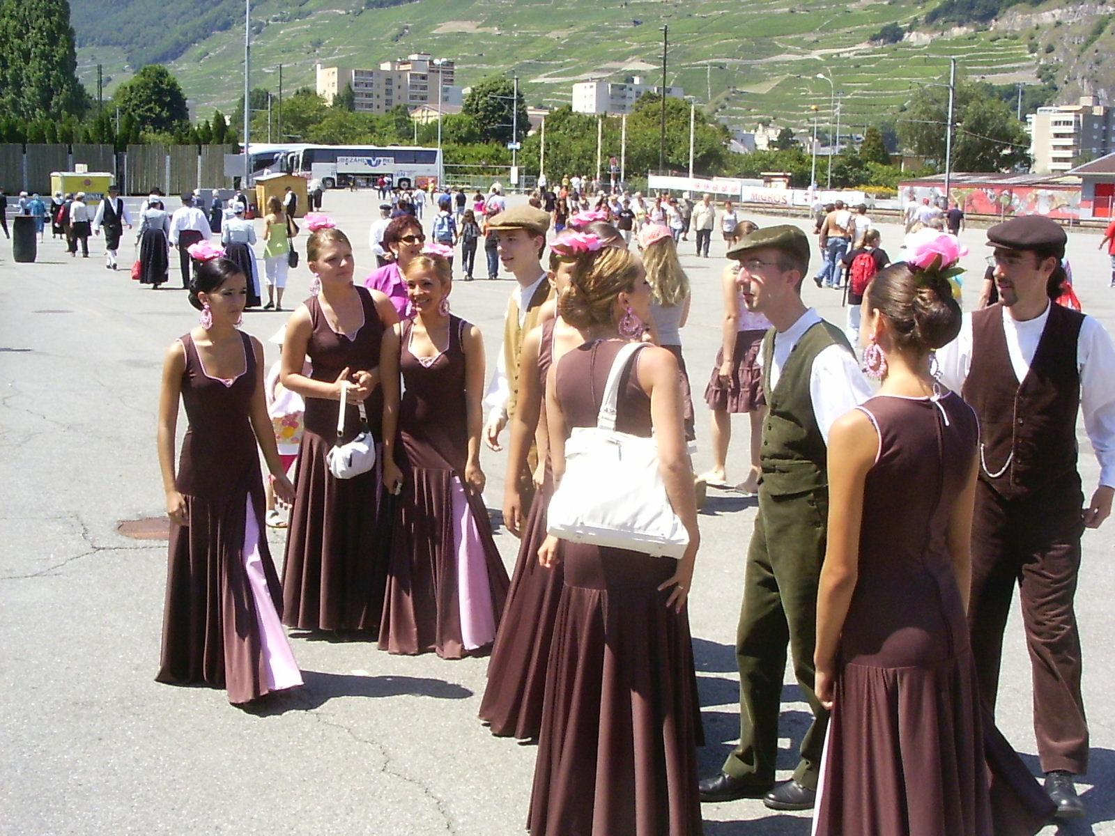 Europeade Martigny (ch) 2008